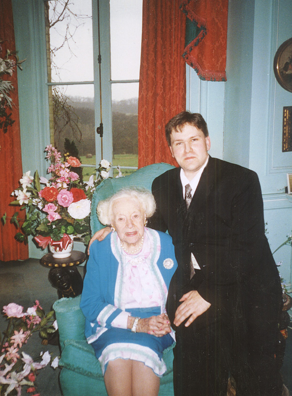 Barbara Cartland, Randy Bryan Bigham, 2000.